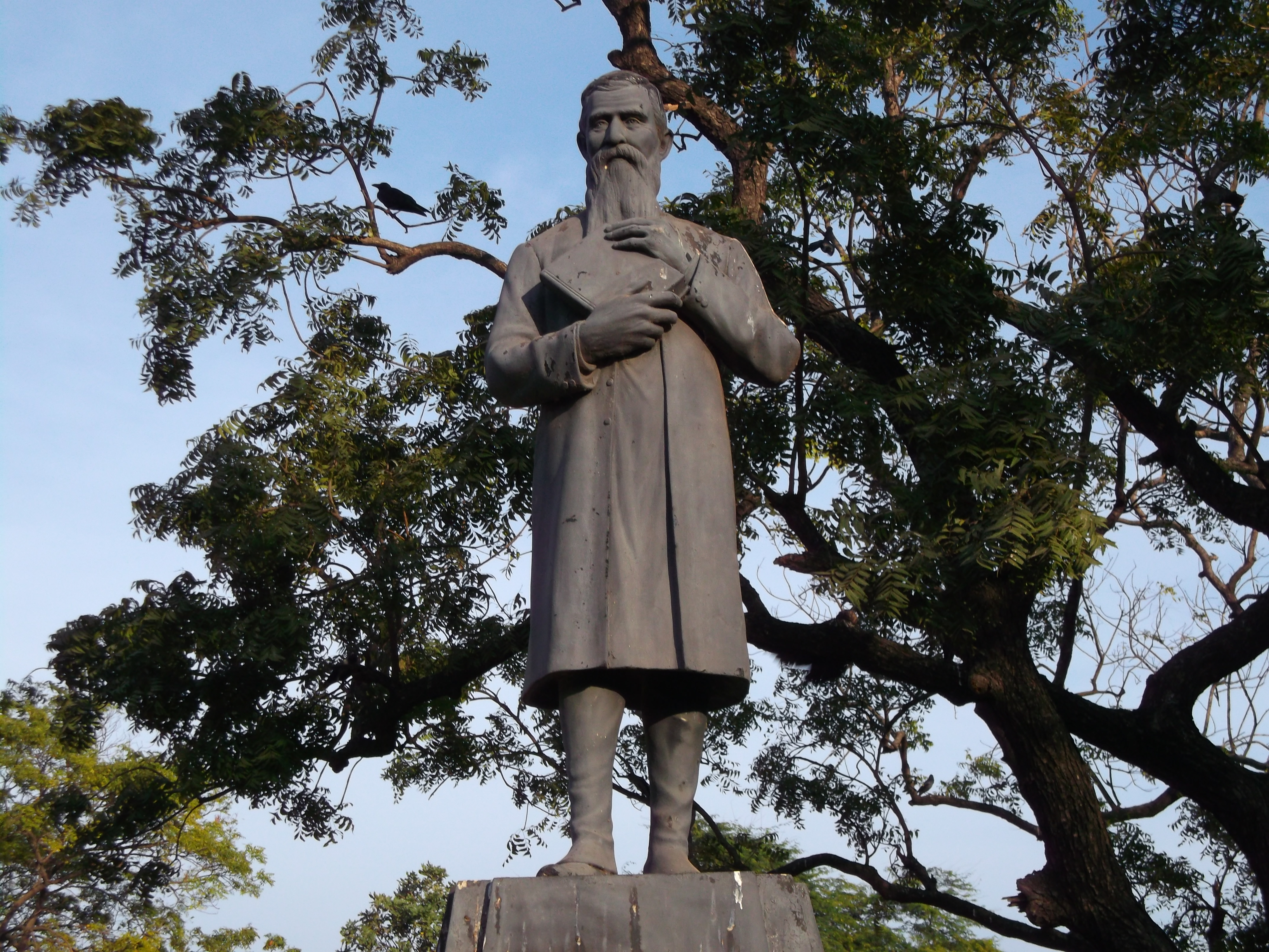 Marina Beach, Robert Caldwell statue, taken on 2-Feb-2013 afternoon